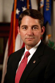 The official portrait of Drew Wrigley as U.S. Attorney